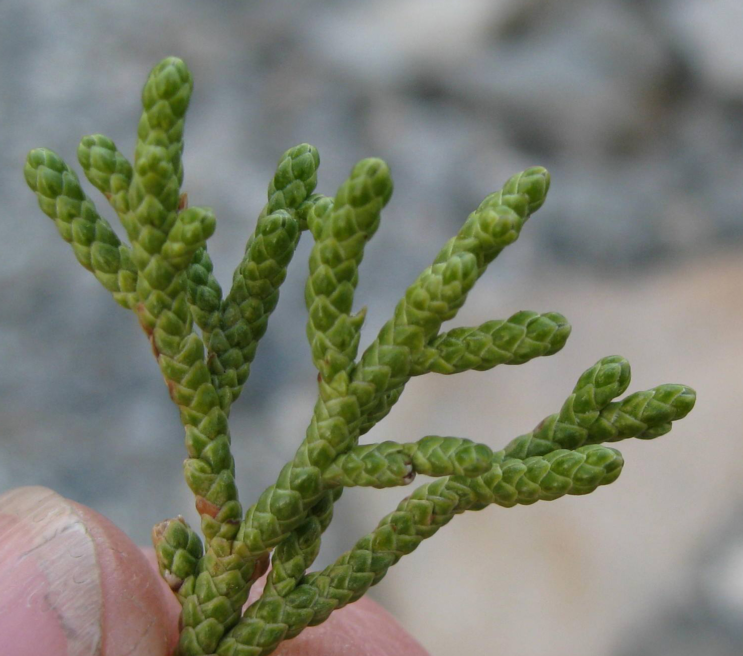 Juniperus occidentalis subsp. australis foliage, below Lake Aloha, Tahoe Rim Trail, California.